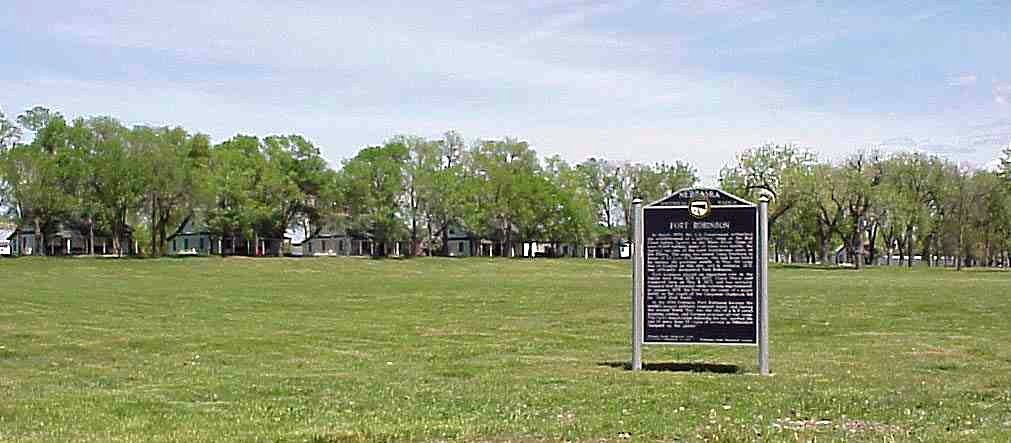 photo of the parade ground at Fort Robinson